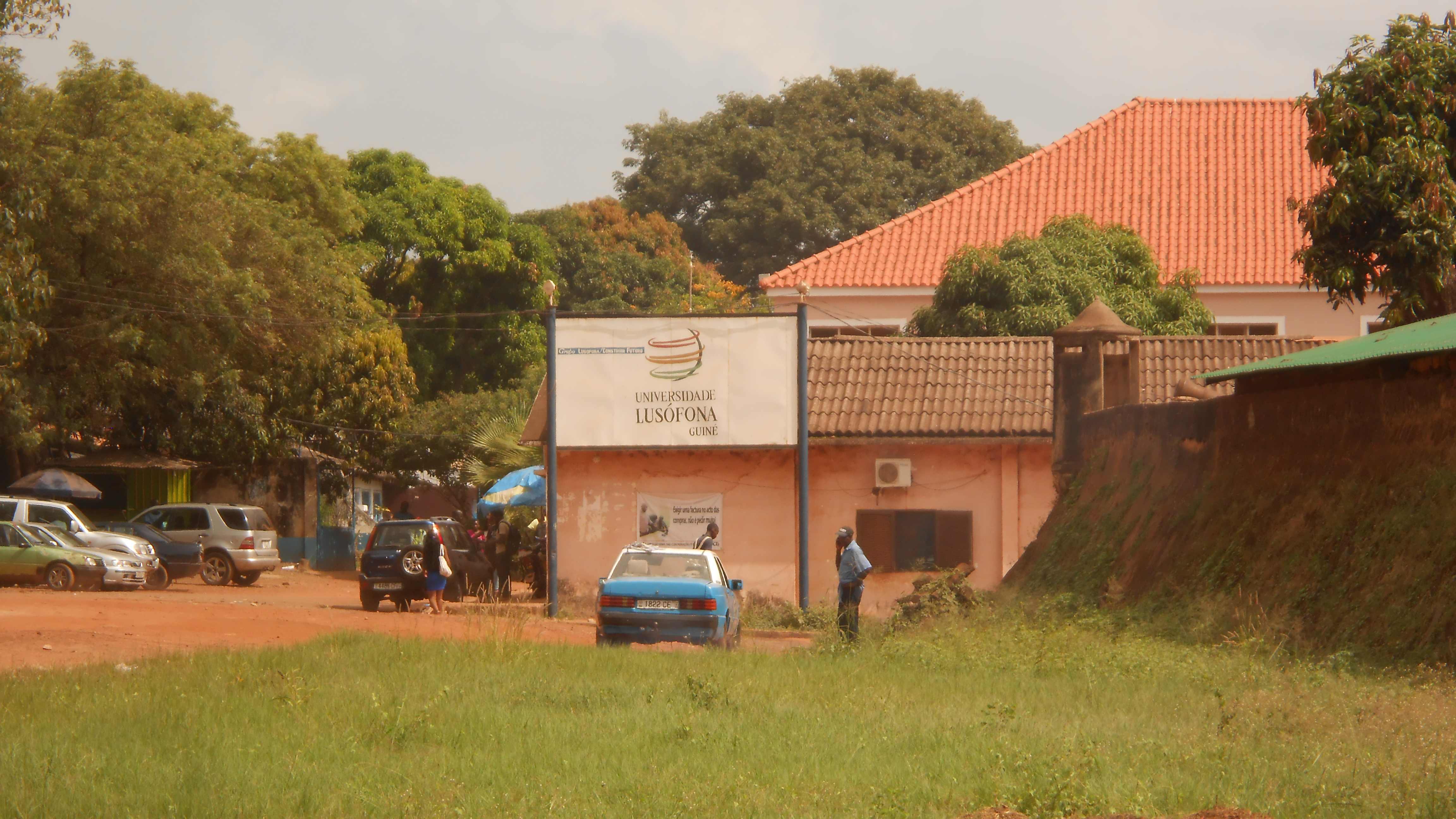 Entrance area to the Universidade Lusófona in Bissau, located next to the Fortaleza de São José da Amura on the right, actual headquarter of the national army.